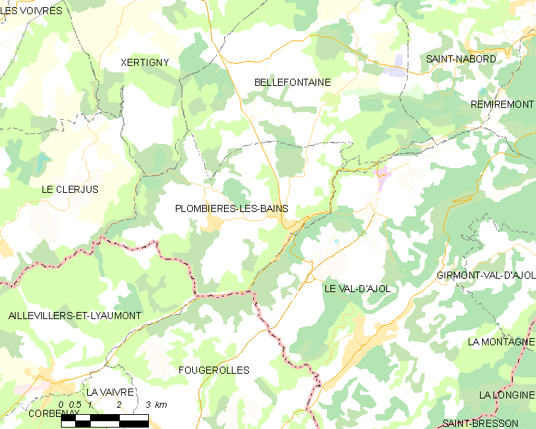 Map of French municipality Plombières-les-Bains